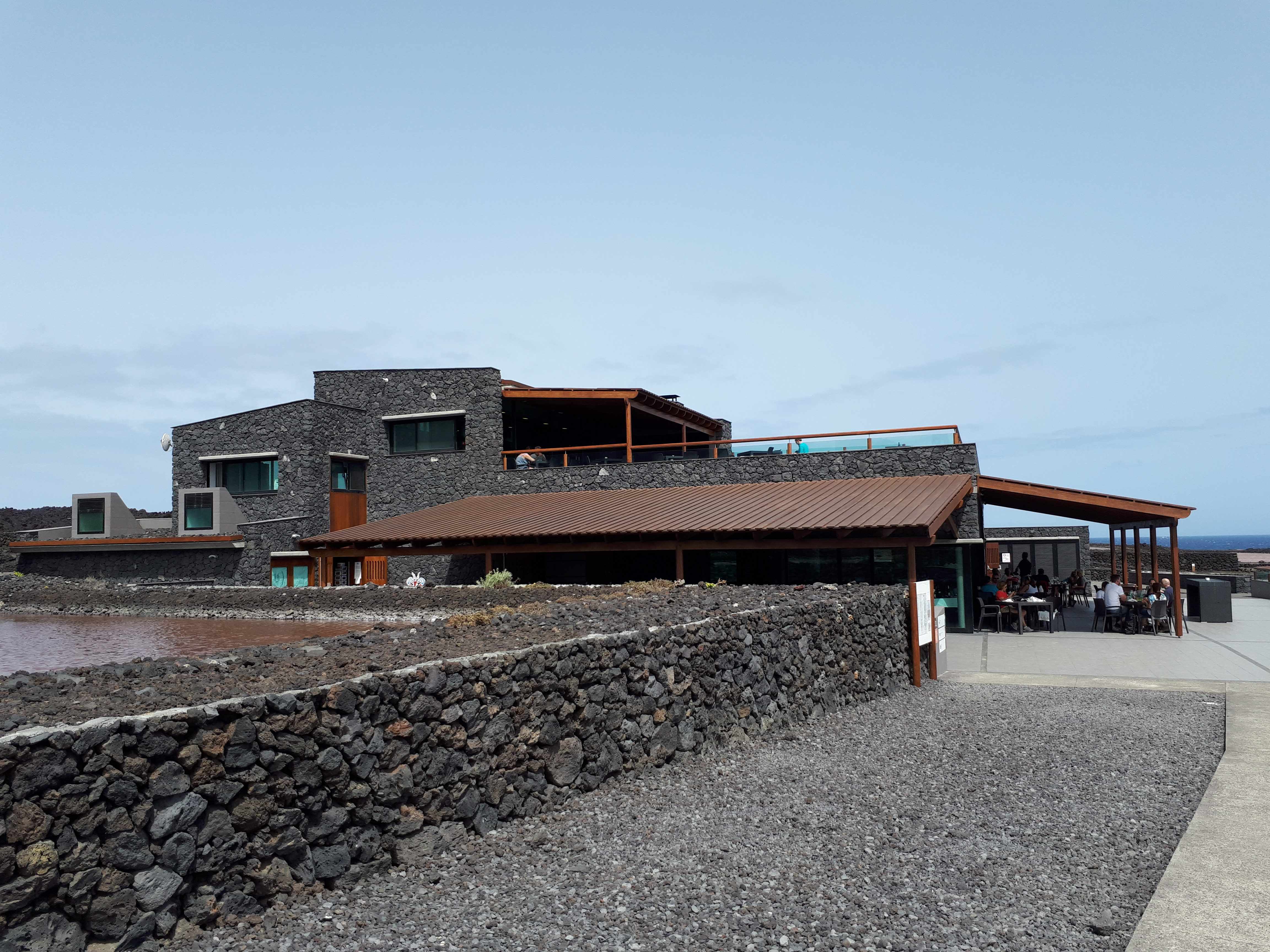 visitor center Centro de Interpretación Salinas de Fuencaliente